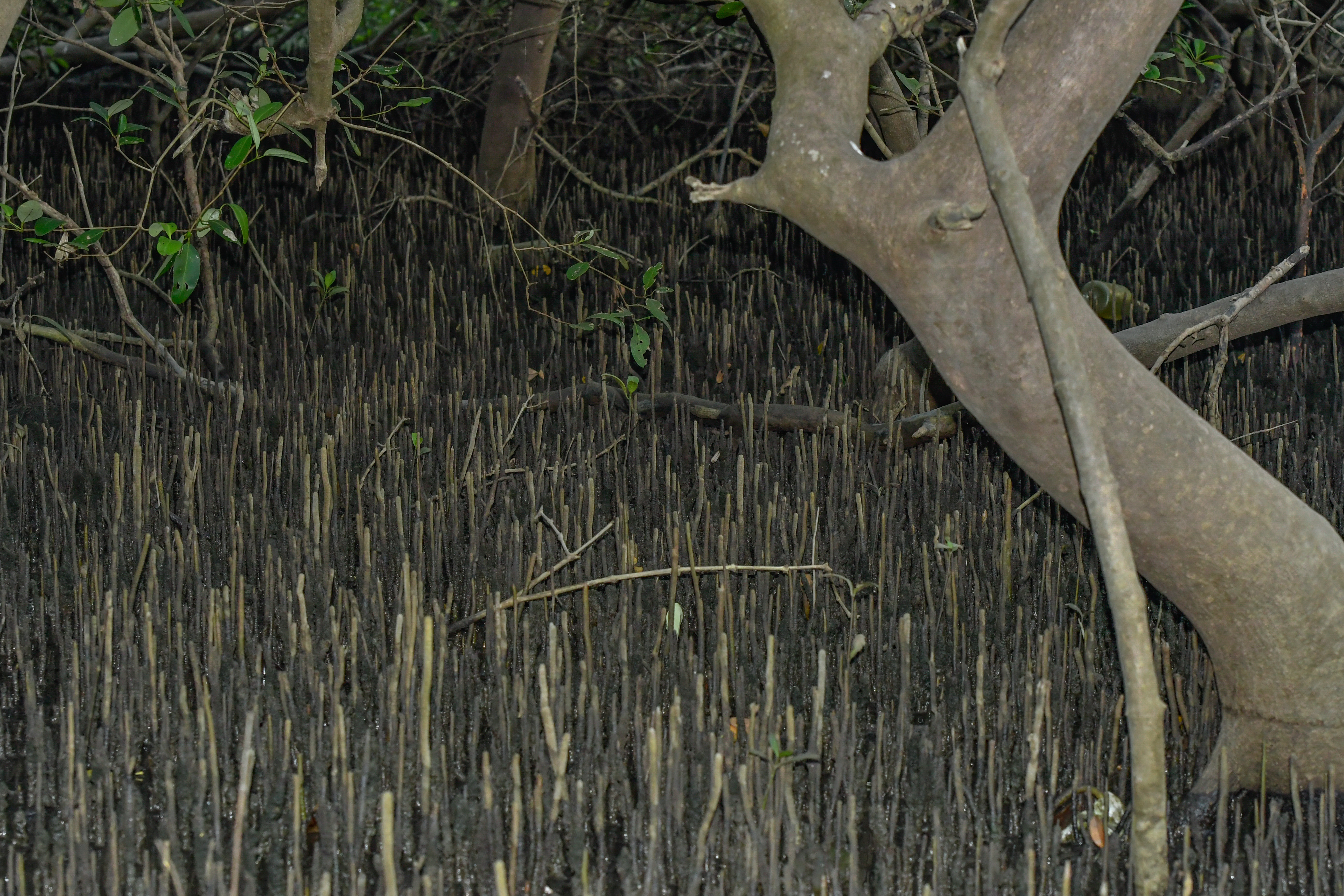 Roots of Mangroves in Kannur